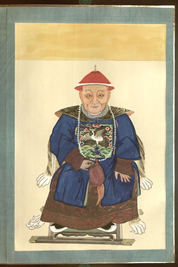 Mu Yao, a local commander of Lijiang